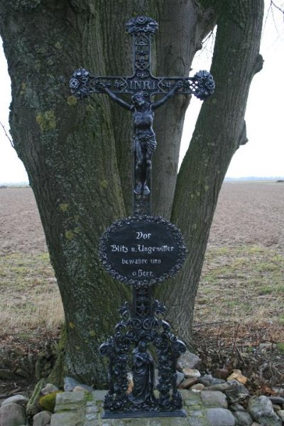 Cultural heritage monument No. 52 in Gangelt